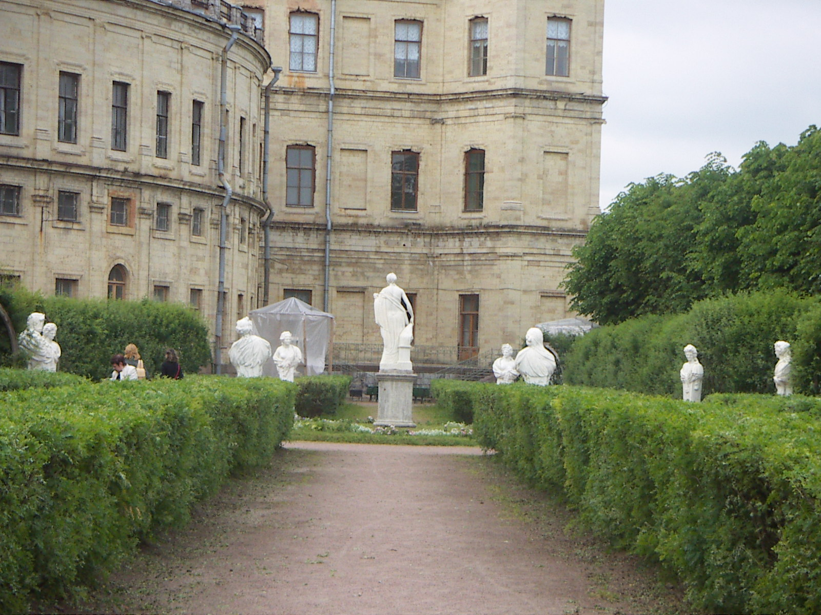 Sobstvenny Sad (Own Garden) in Gatchina